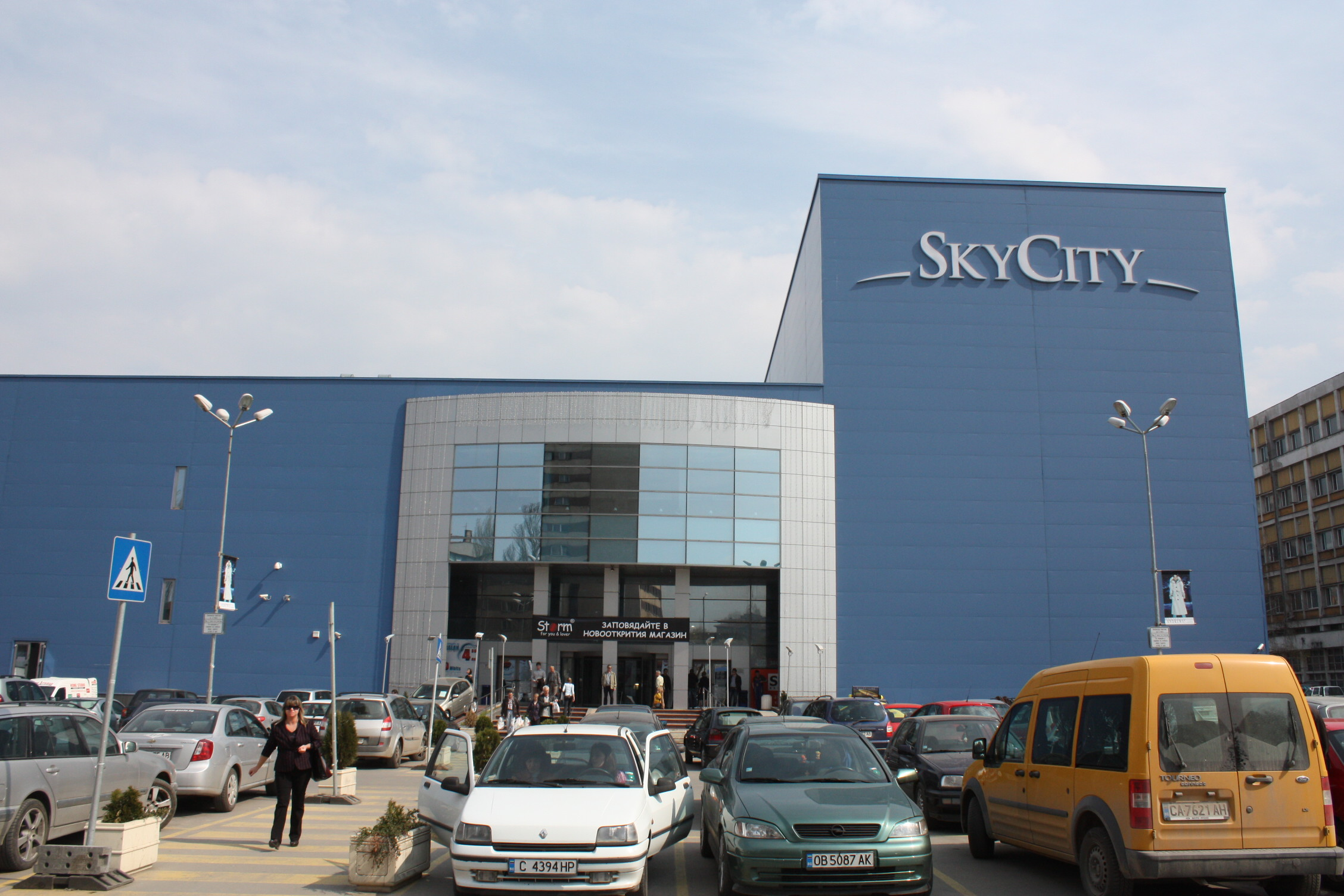 Sky City Mall, Sofia,Bulgaria